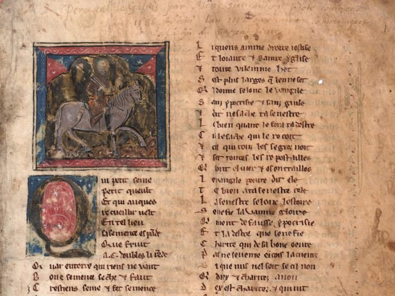 Roman de Graal, ou suite de Perceval le Galois, composé par Chrestien Manesier de Troyes